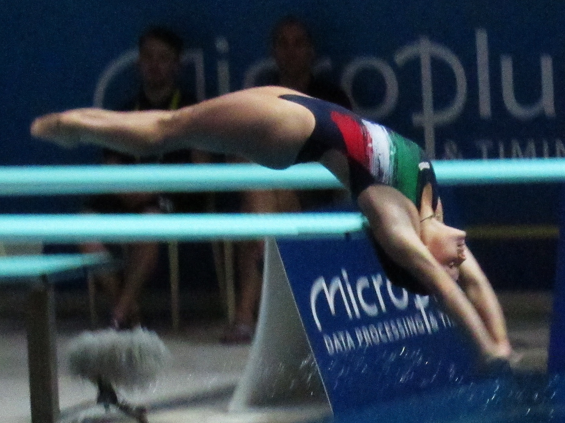 Italian diver Chiara Pellacani at the 2019 European Diving Championships in Kyiv.